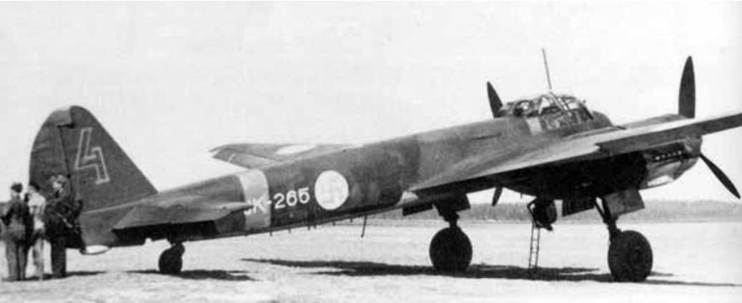 A Finnish Junkers Ju 88A-4/R bomber (serial JK-265). This aircraft was built by Junkers with the construction number 3877 (German registration GE+YG). It was delivered to the Finnish Air Force on 10 April 1943 and served with LeLv.44 and PLeLv.43 until put into storage on 17 October 1945.